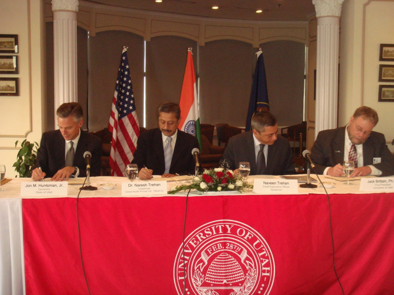 Utah Governor John Huntsman Jr. participates in the signing of Memoranda of Understanding by representatives of Globerian and Medicity and the vice president of the University of Utah in New Delhi, Oct. 29, 2007.